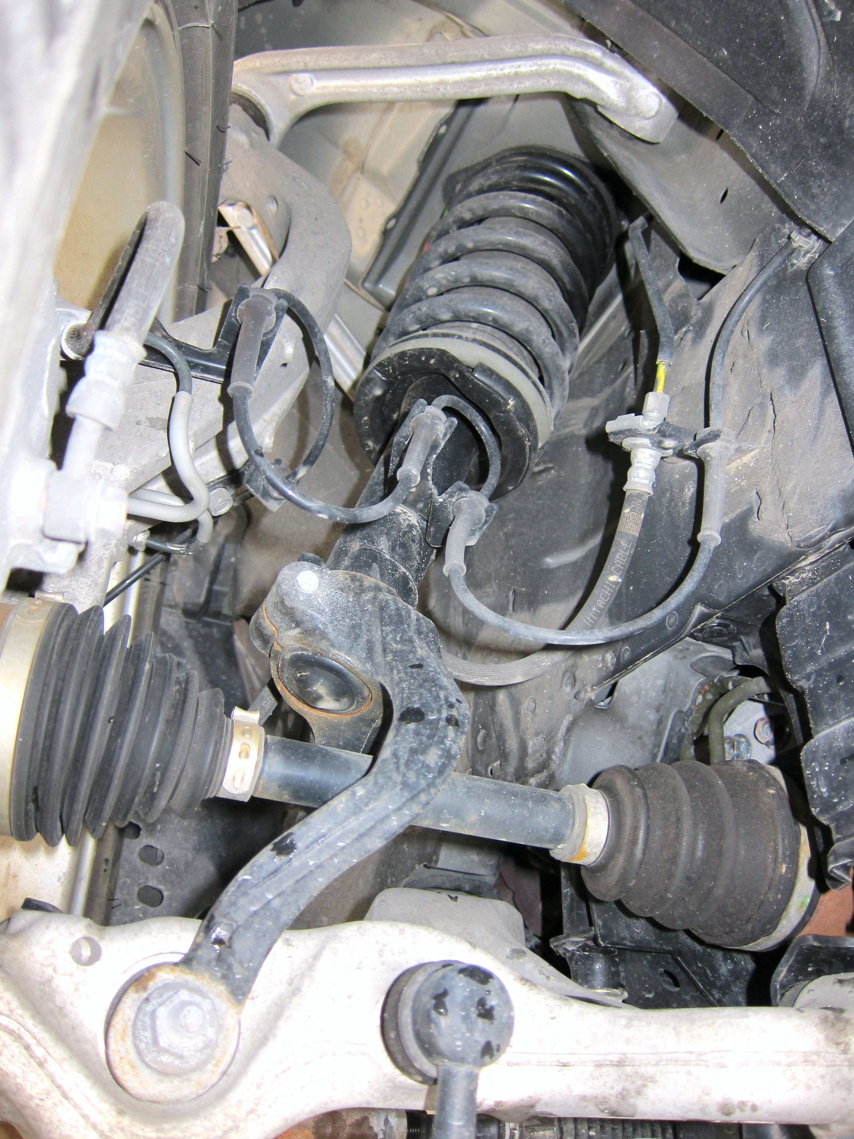 Front shock absorber (right side) of 2008 Nissan Fuga 350GT FOUR.(Dual-flow-path shock absorber)